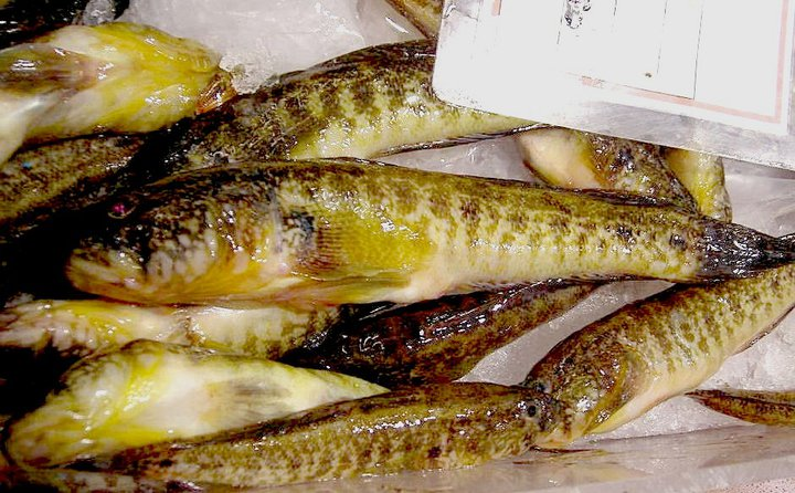 Zosterisessor ophiocephalus for sale in a Sardinian market. Photo by Joachim Langeneck.